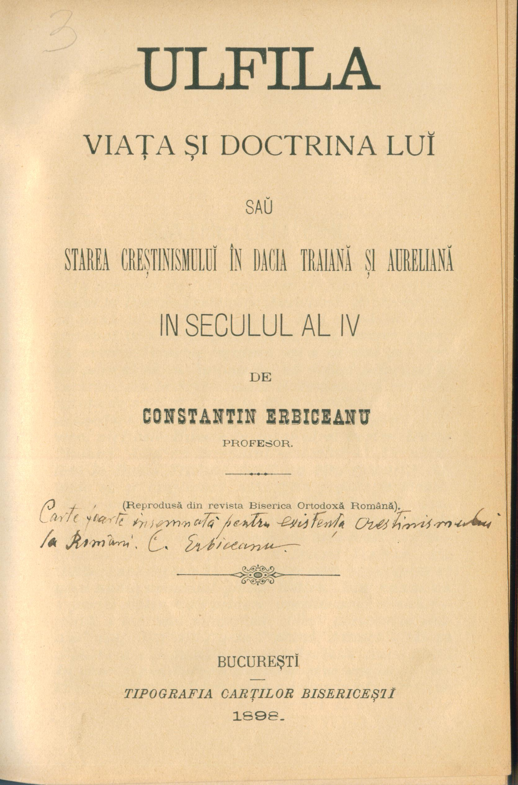 Cover of Ulfila (1898) by Constantin Erbiceanu (1838–1913), Romanian historian